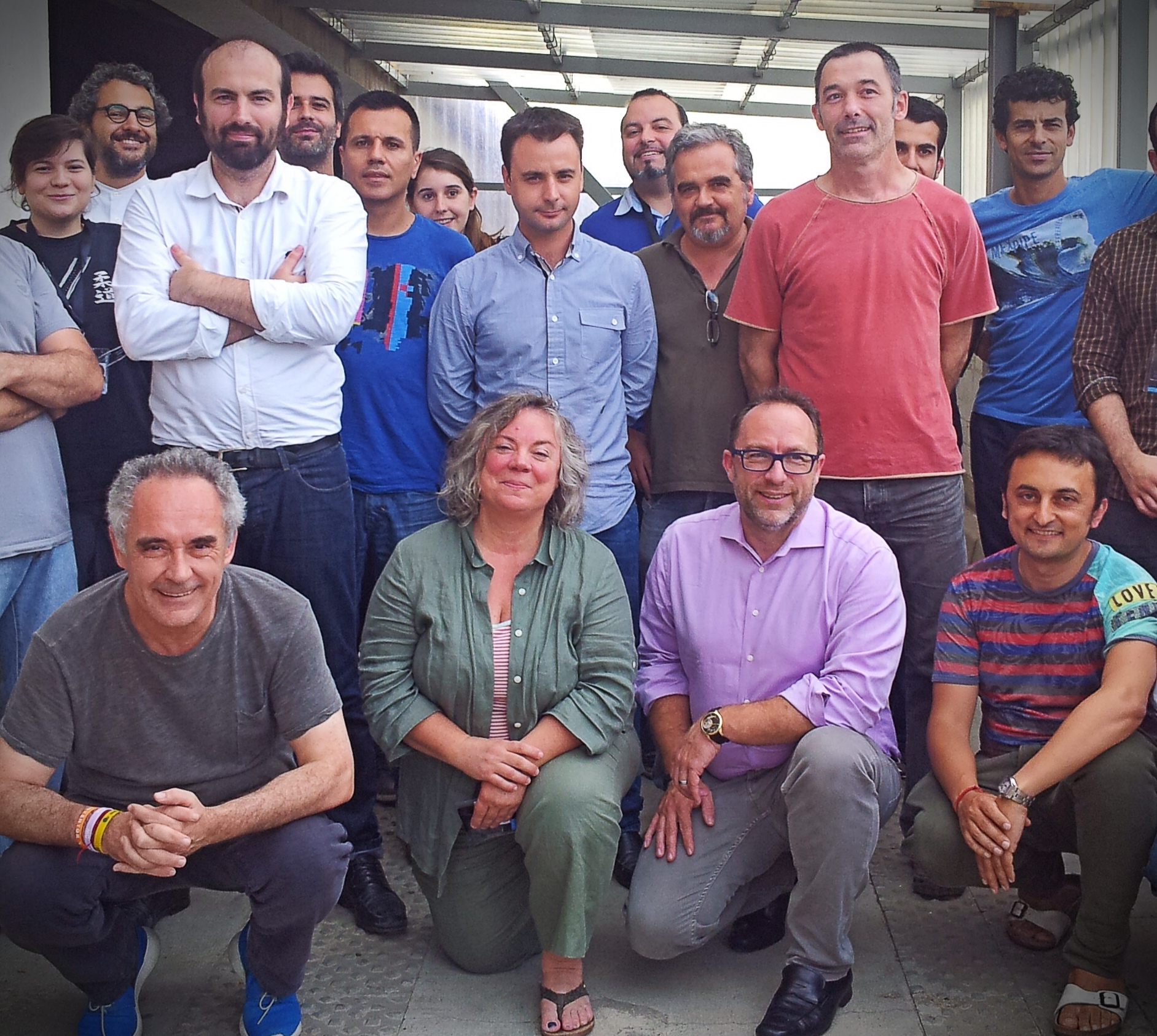 Jiimmy Wales meets Bullipedia team